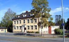 Primary school, Fjellstrand, Nesodden, Norway.